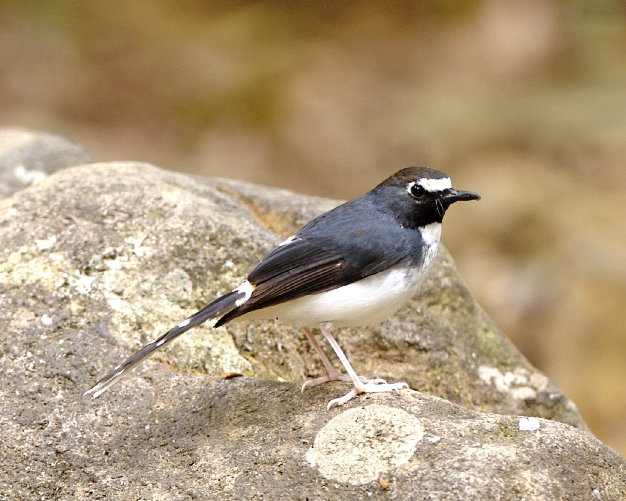 Sunda Forktail - female Enicurus velatus Local name, Indonesian: Meninting kecil 10th. August 2007 Location : Gunong Gede, Java, Indonesia Distribution: _Q0S8305